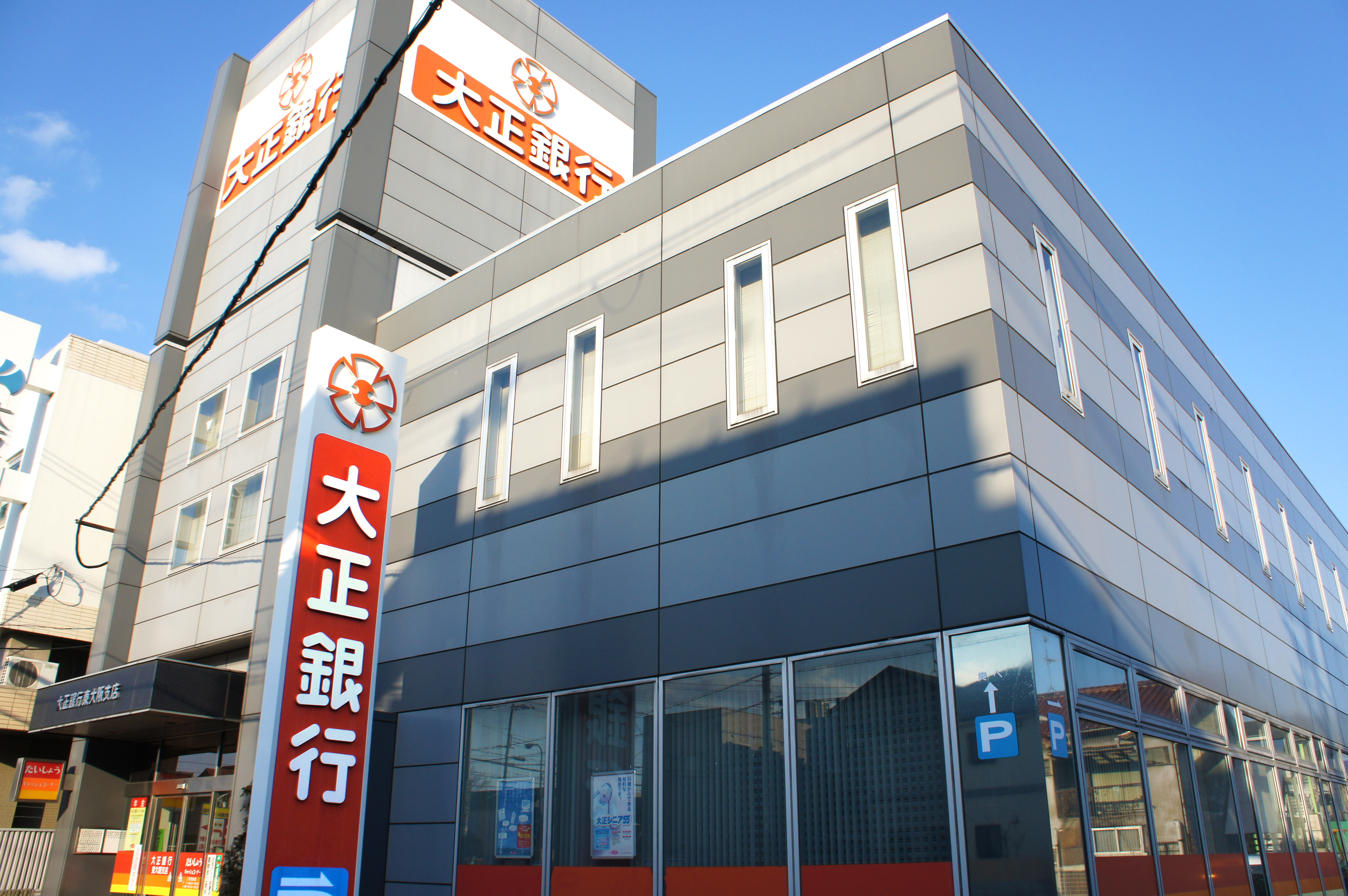 Taisho Bank Higashiosaka branch, 2-5-5 Mikuriyanaka Higashiosaka-City Osaka JAPAN.